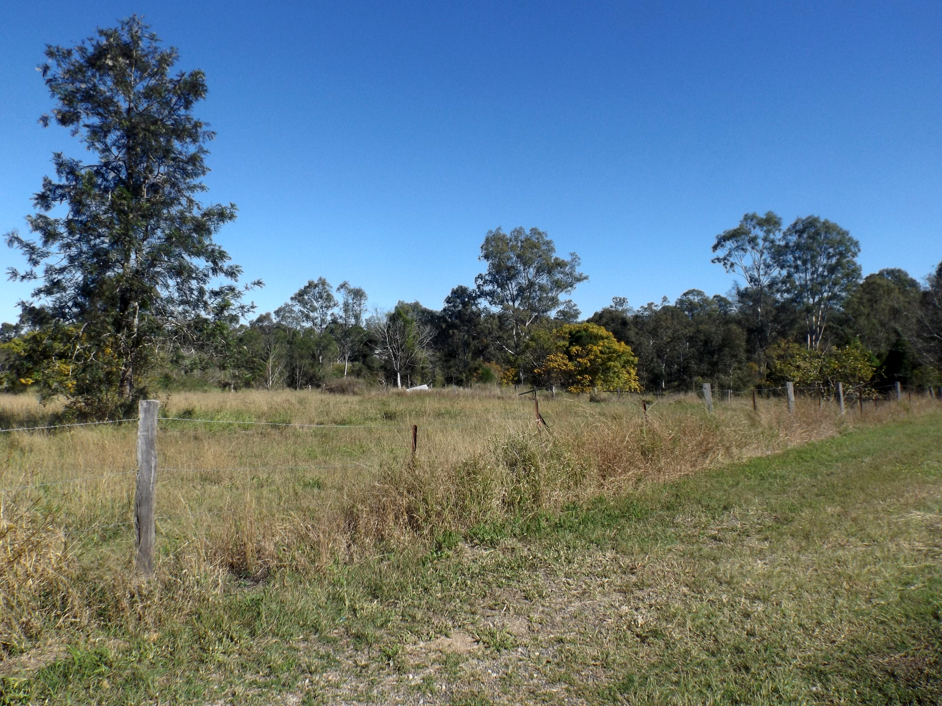 Photo of Paddocks along Hooper Street, West Ipswich, City of Ipswich, Queensland, Australia.